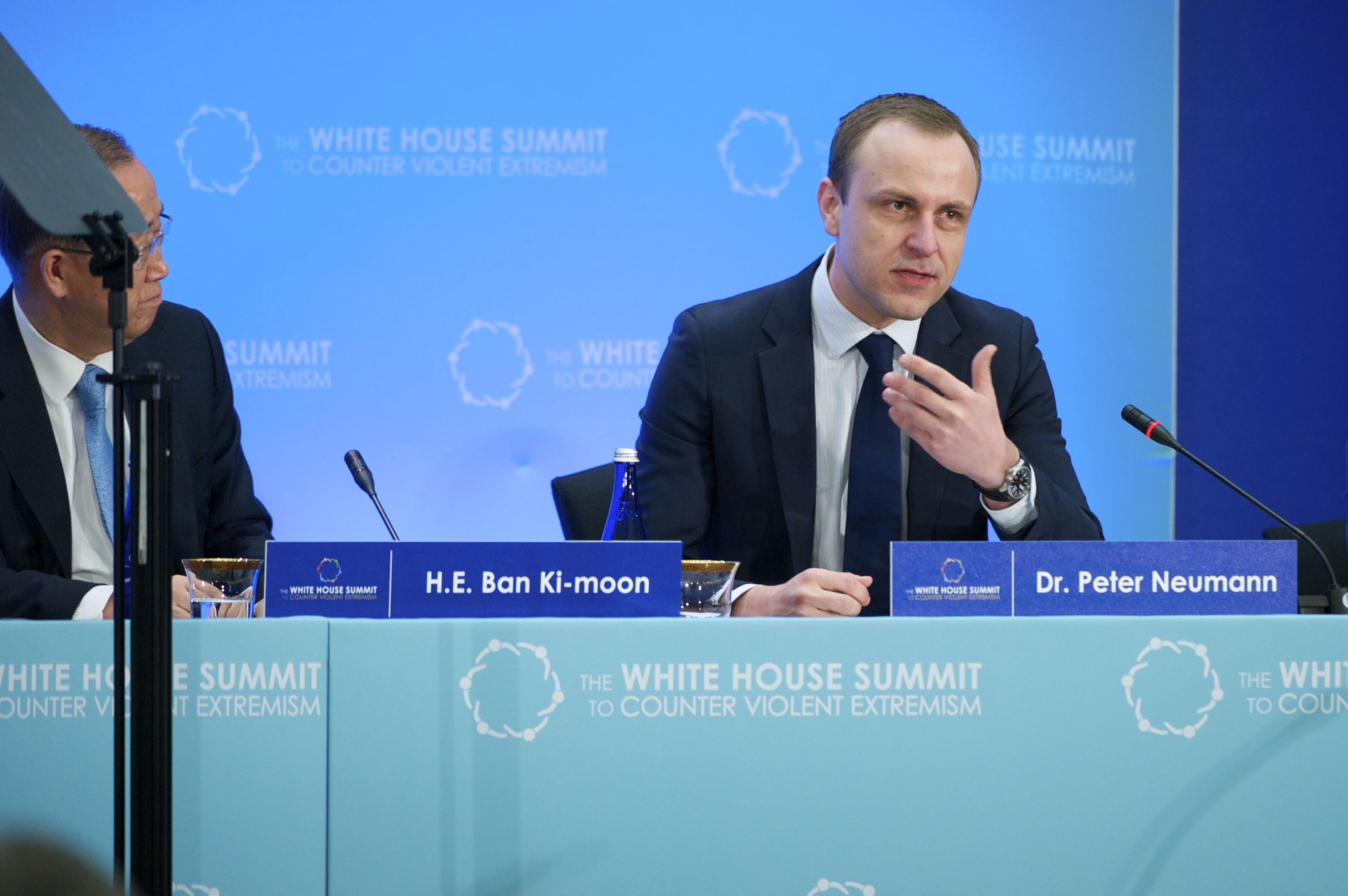 Dr. Peter Neumann, Director of the International Centre for the Study of Radicalization in the United Kingdom, addresses the White House Summit to Counter Violent Extremism's first session -- Understanding Violent Extremism Today -- at the U.S. Department of State in Washington, D.C., on February 19, 2015. [State Department photo/ Public Domain]